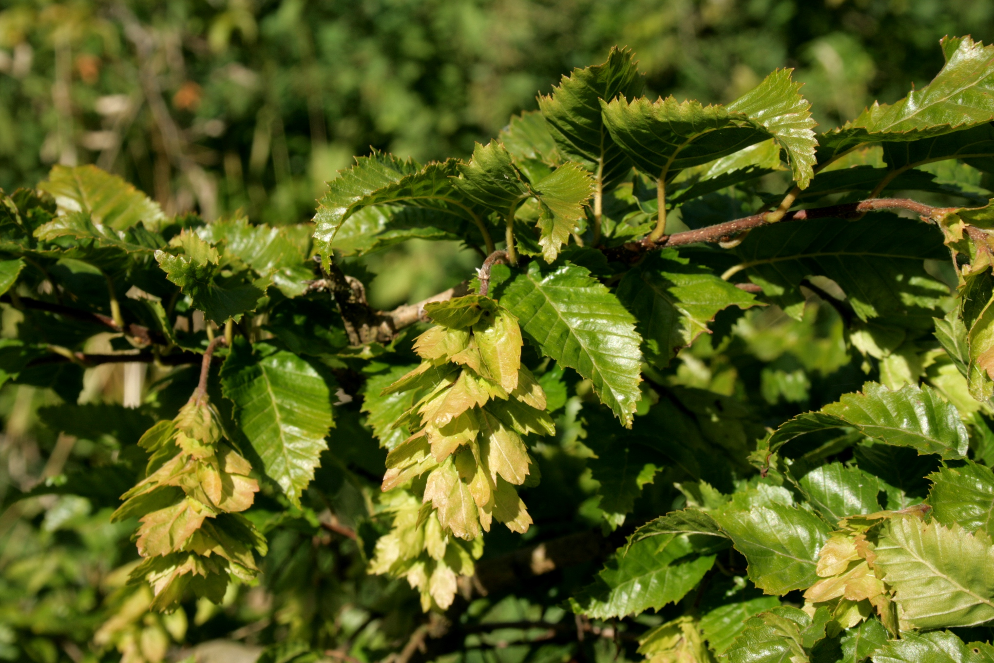 Carpinus japonica: Fruits